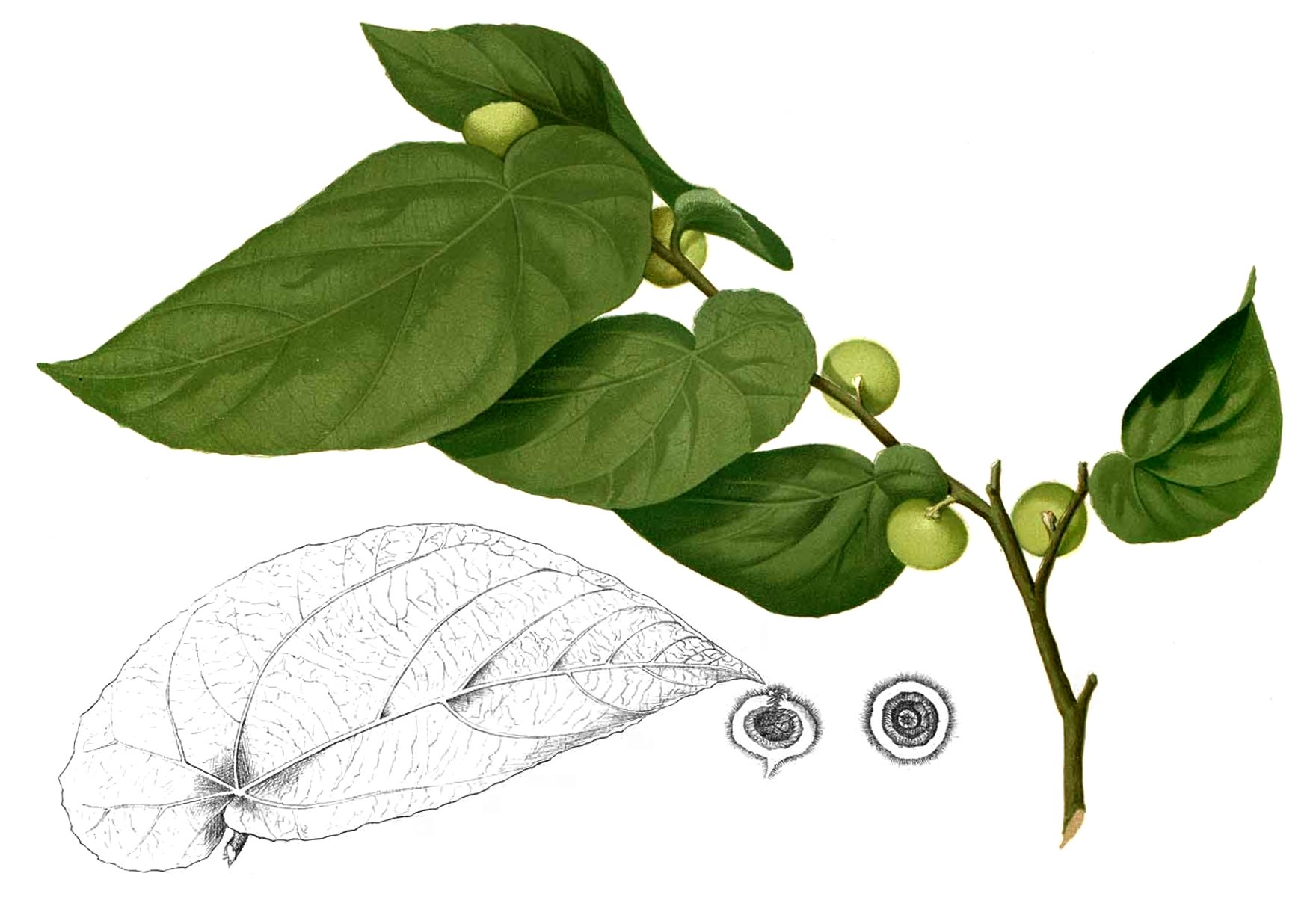 Plate from book